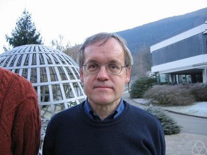 Alexander Schrijver, Oberwolfach 2004